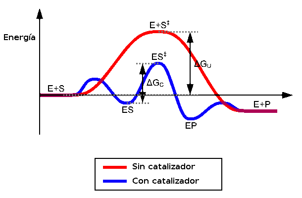 Translation to Spanish from Image:Enzyme catalysis delta delta G.png, a User:Zephyris job.